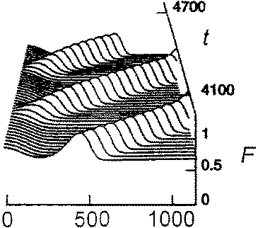 Bifurcation of a high-field domain in p-type Ge; three dimensional rendering with the electric field shown vs. position and time